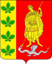 Coats of arms of Georgievskoye (Tuapse, Krasnodar, Russia).